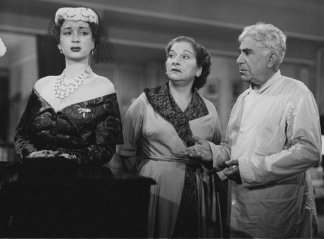 Mi marido hoy duerme en casa- película argentina